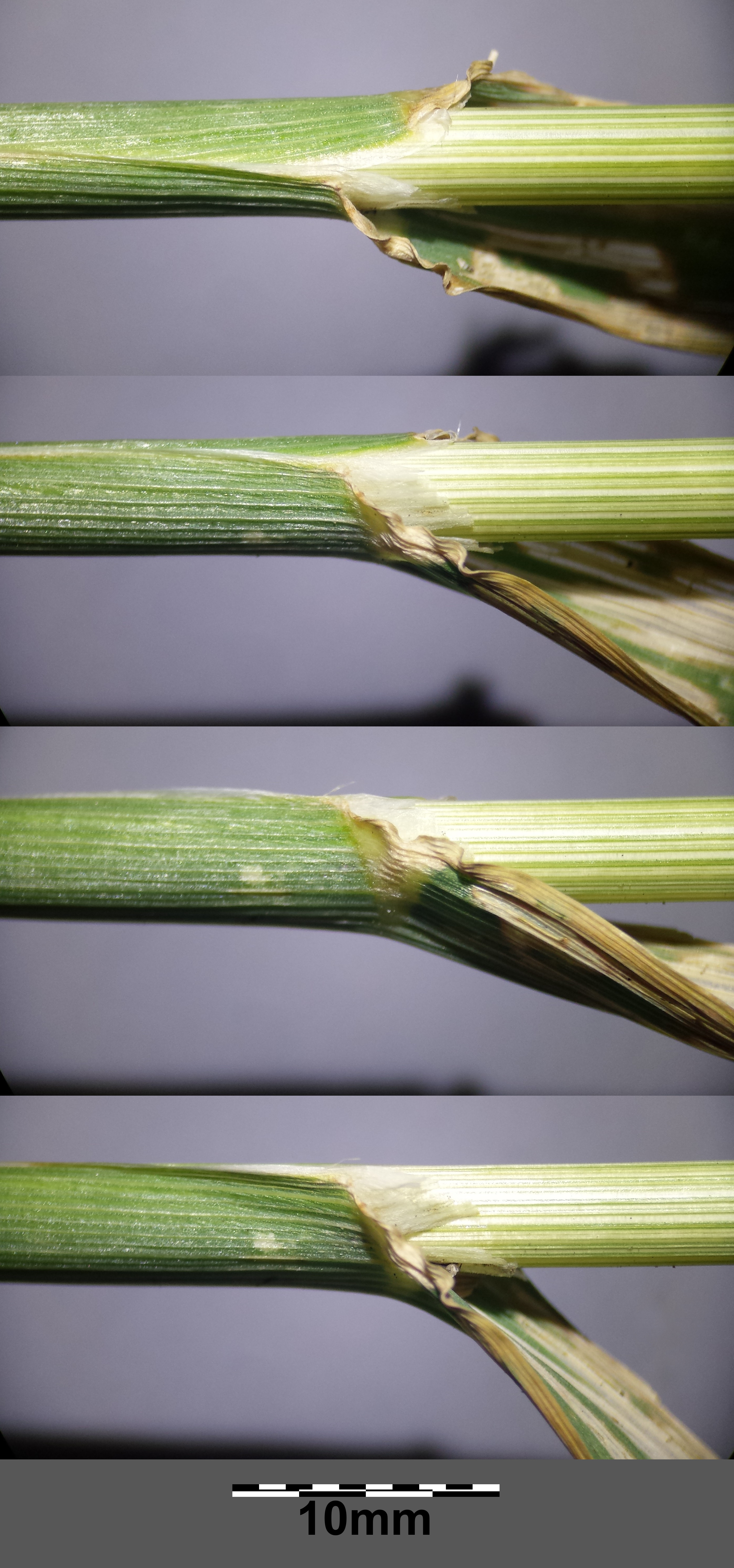 Stem with leaf sheat and ligule Taxonym: Avena fatua ss Fischer et al. EfÖLS 2008 ISBN 978-3-85474-187-9 Location: next to Groß-Jedlersdorf cemetery, Vienna-Floridsdorf - ca. 160 m a.s.l. Habitat: border of a field